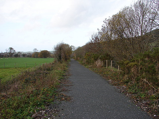 Ystwyth Trail cycle path Here the cycle path follows the route of the old Carmarthen to Aberystwyth railway line.